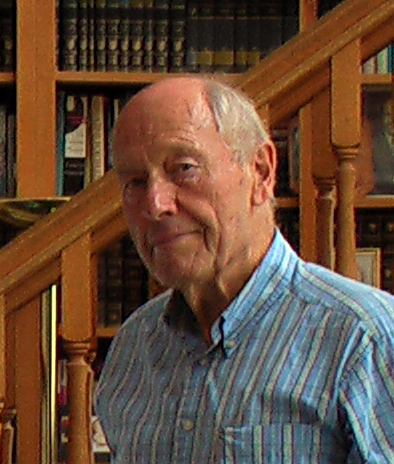 cropped version of File:David W. Allan.jpg, photographed by Sterling Allan